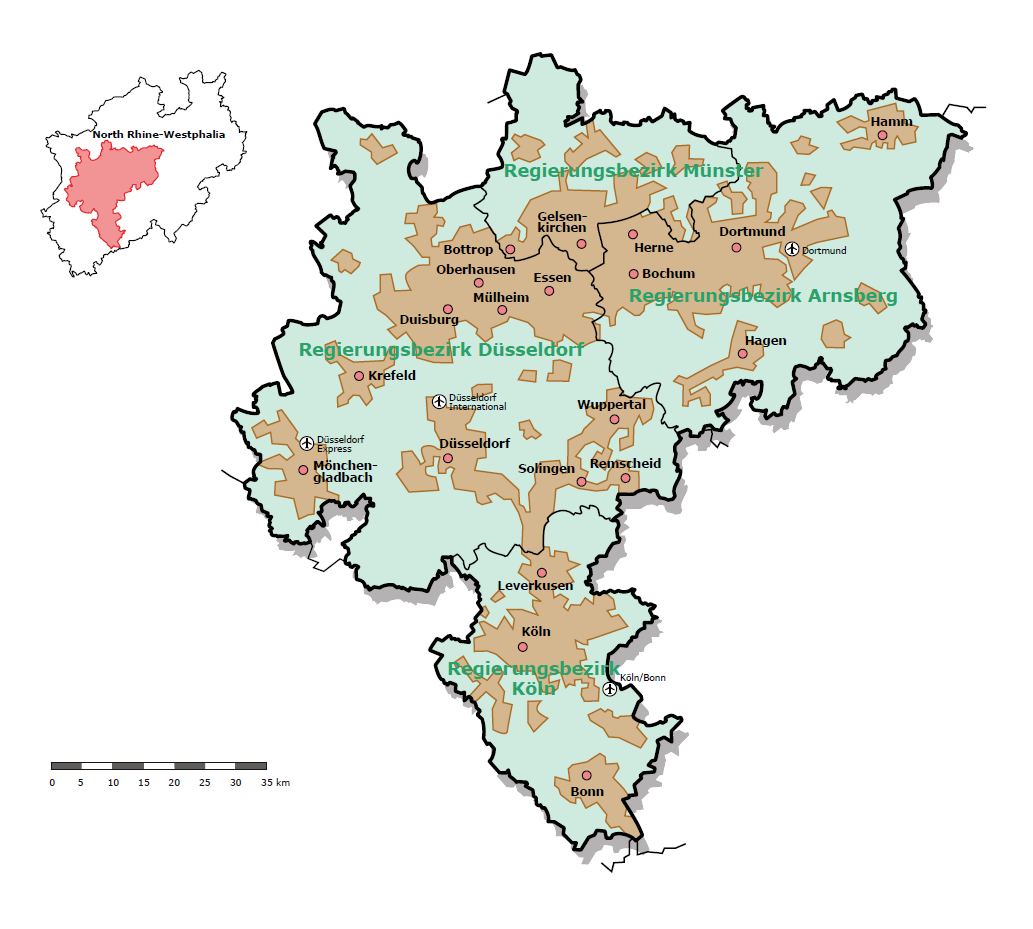 Map of the Rhein-Ruhr metropolitan region